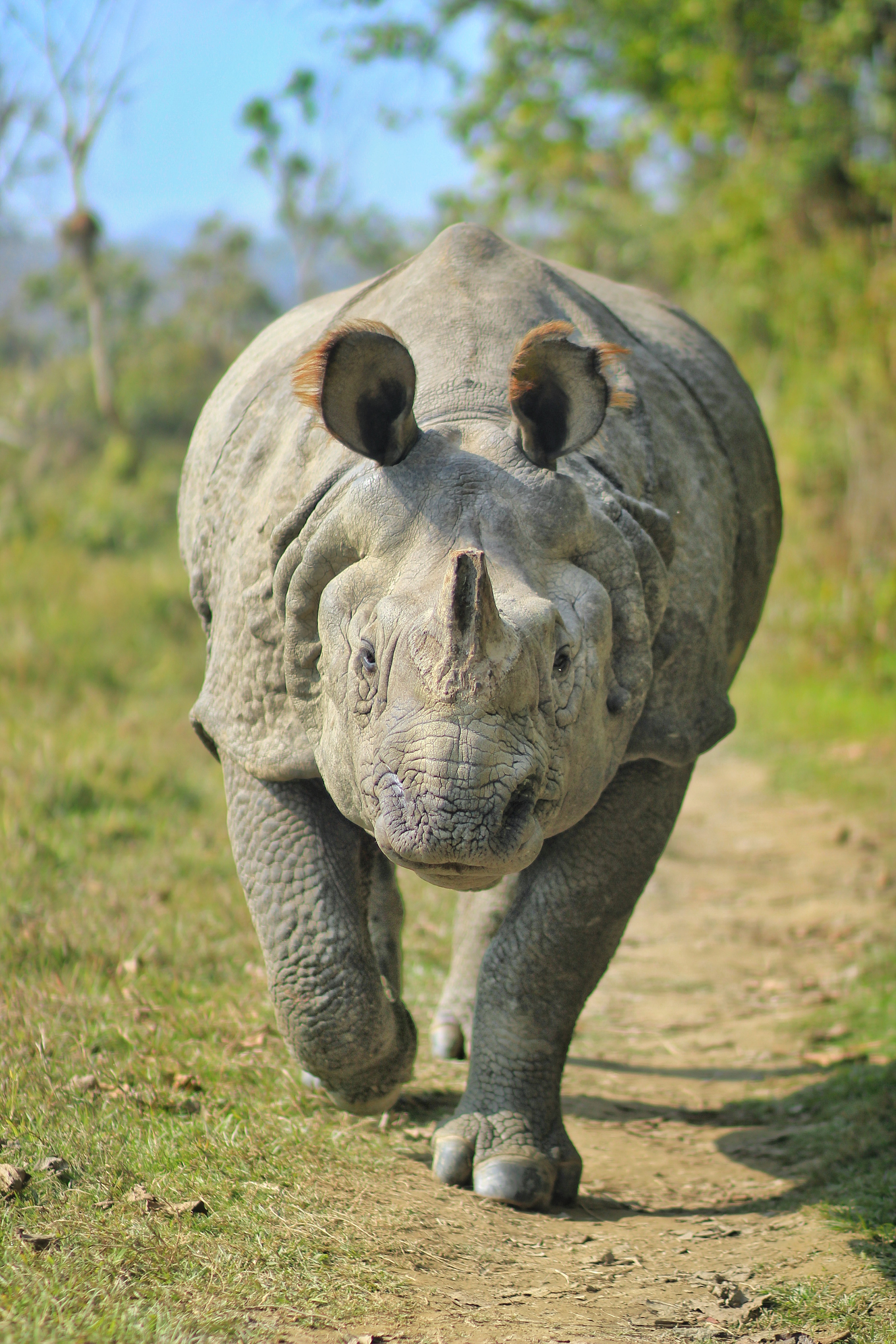 One-horned Rhinoceros at Chitwan National Park